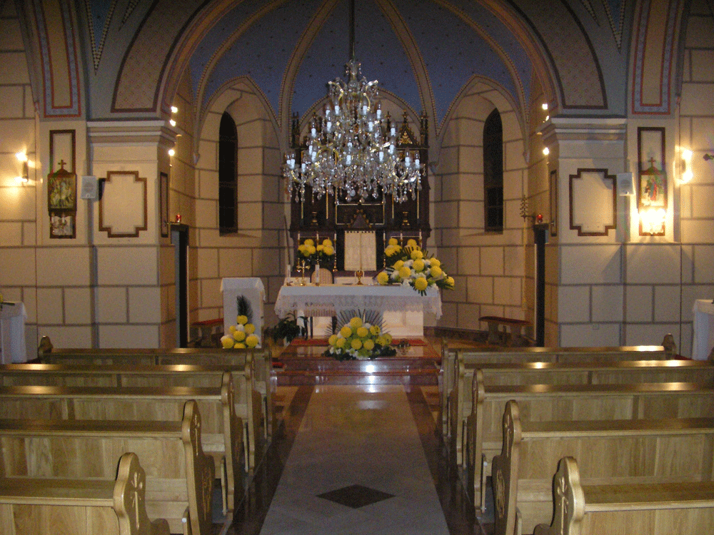 Interior of church in Mraclin, Croatia